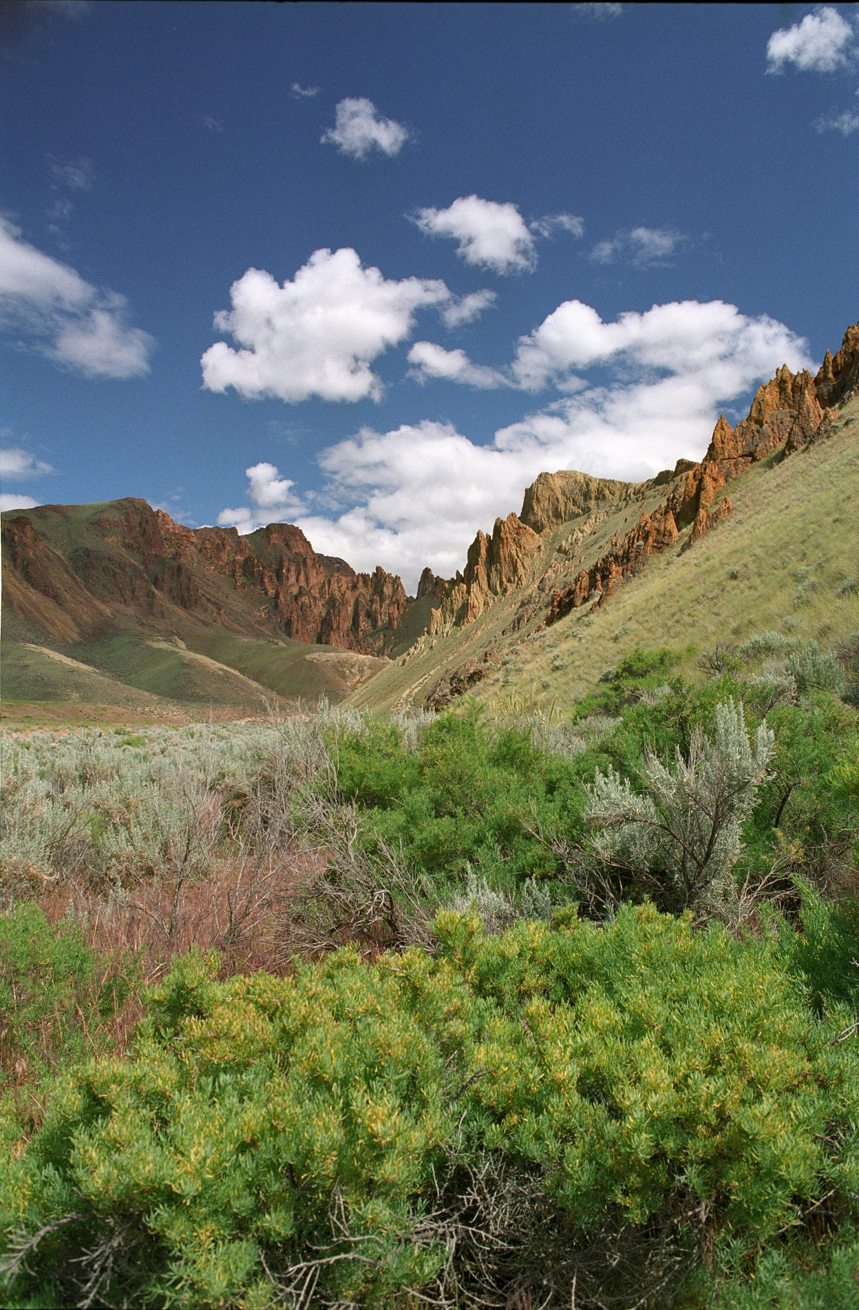 Leslie Gulch landscape in the spring, Malheur County, Oregon, 2009.